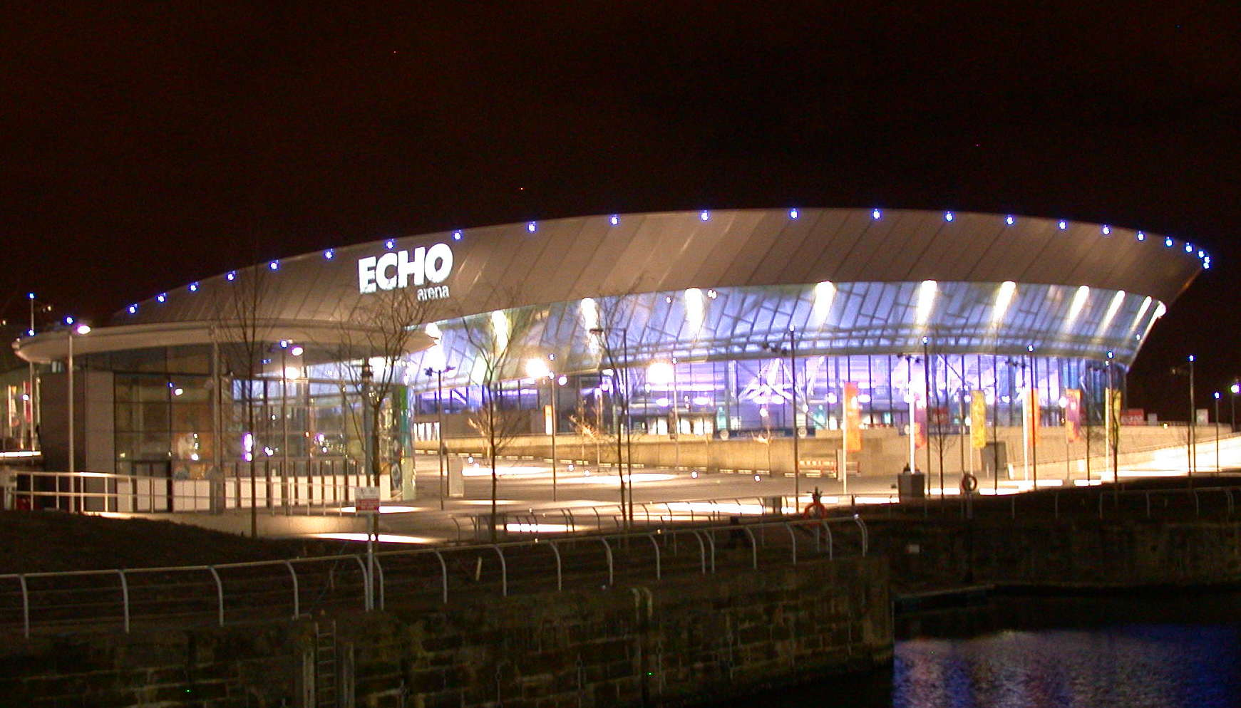 The Echo Arena Liverpool, at night